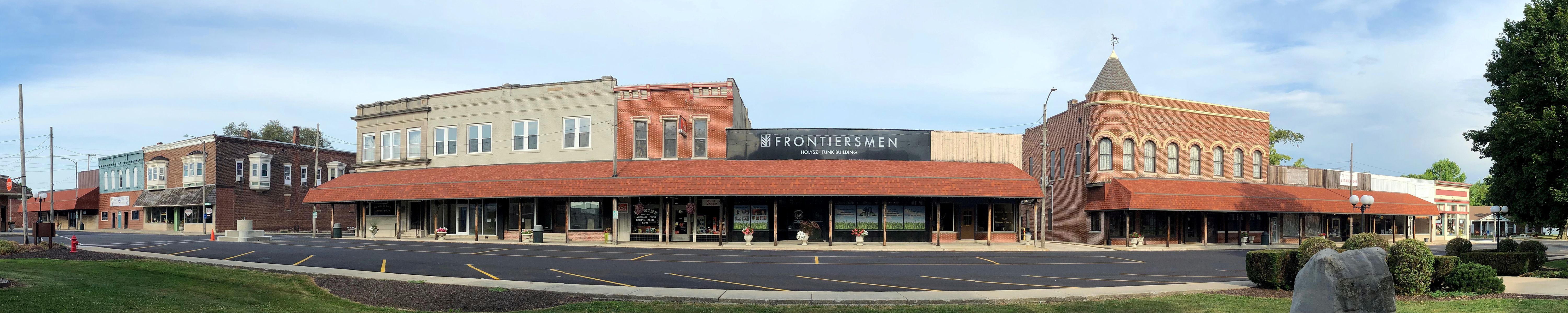 A panorama of storefronts along the west side of the courthouse square in Kentland, Indiana.